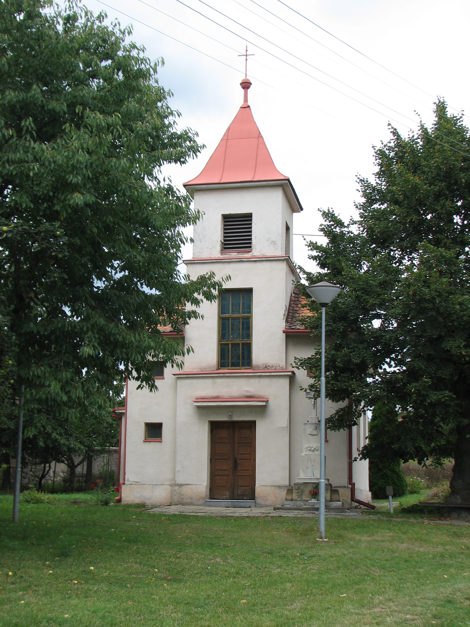 Ostrovánky - chapel of Saint Wenceslas